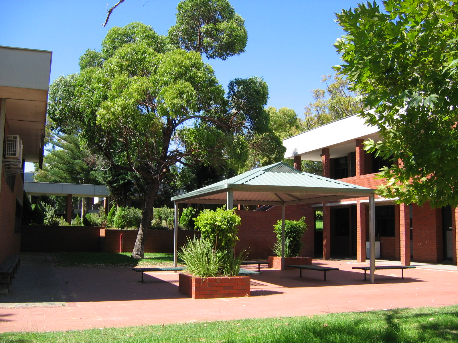 Back of Carine Senior High School, Perth, Western Australia.